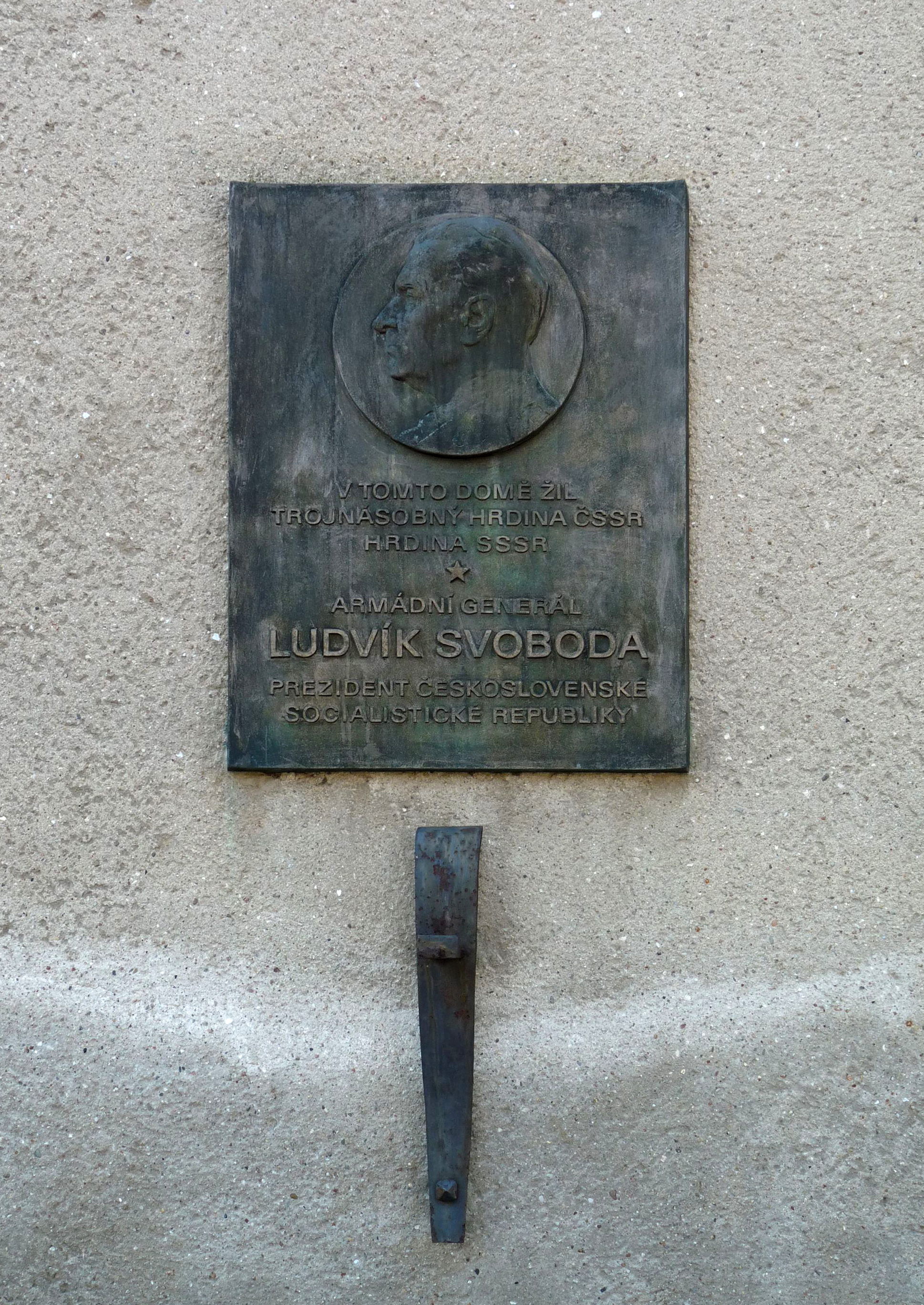 Commemorative plaque - Ludvík Svoboda, in the town of Kroměříž, Zlín Region, Czech Republic.